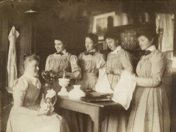 Ofleiden 1898 Reifensteiner Schule Hausarbeit